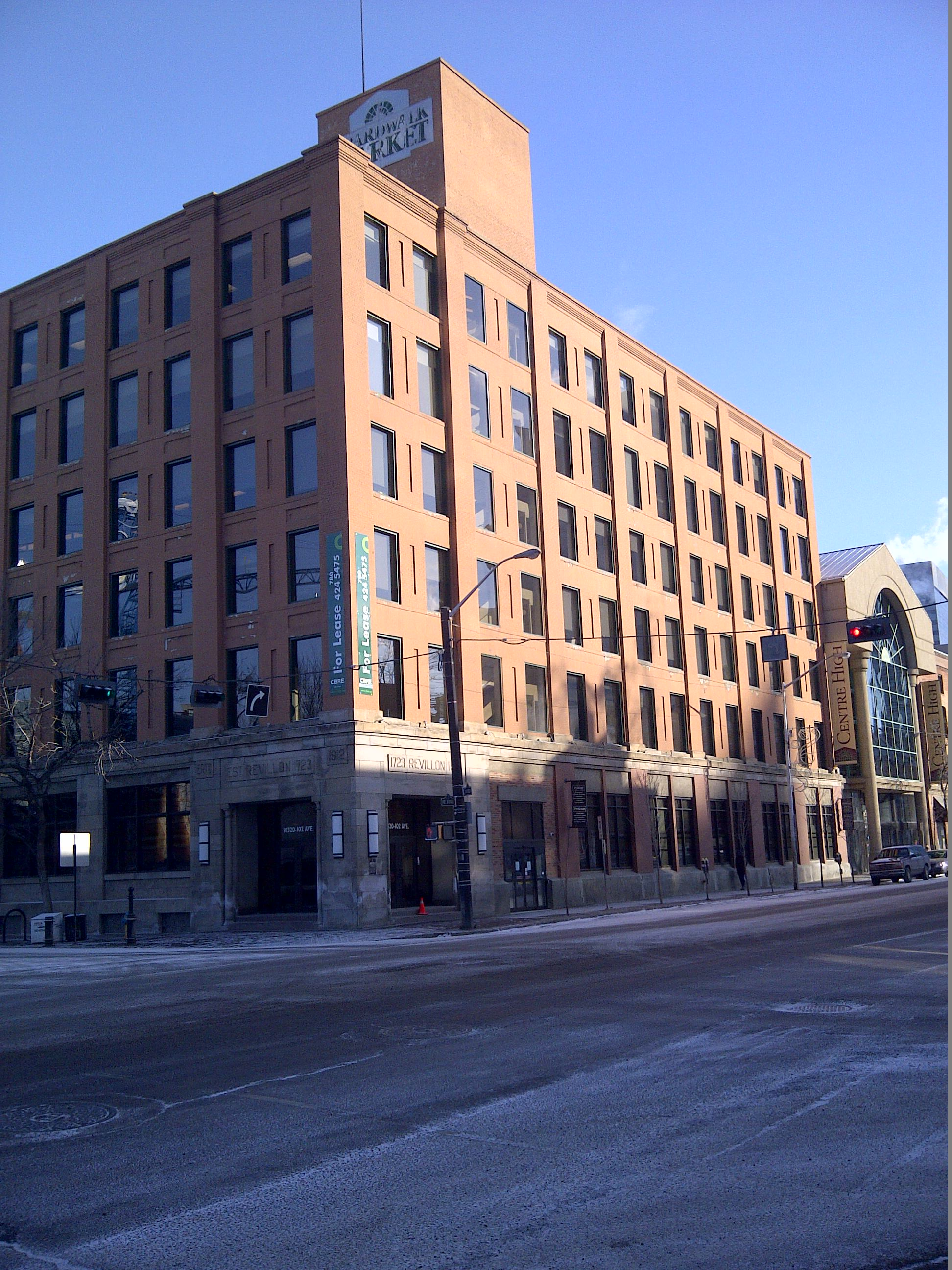 The former corporate center for Revillon Freres in Edmonton . Built in 1912 . Located at 104 street and 102 ave in downtown Edmonton.